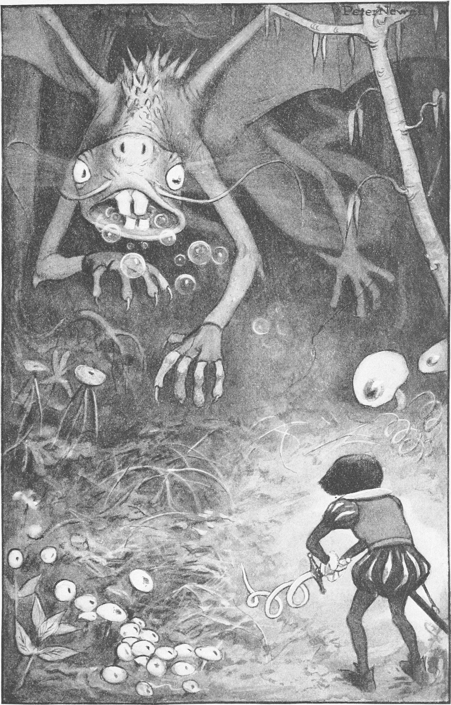 "The Jabberwock, with eyes of flame, // Came whiffling through the tulgey wood, // And burbled as it came!". Illustration by Peter Newell to "Through the Looking-Glass and What Alice Found There", chapter "Looking-Glass House"